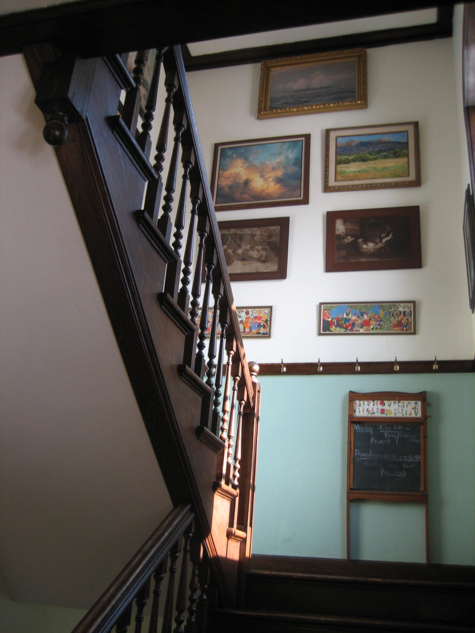 Oregon Public Library, Oregon, Illinois. National Register of Historic Places.